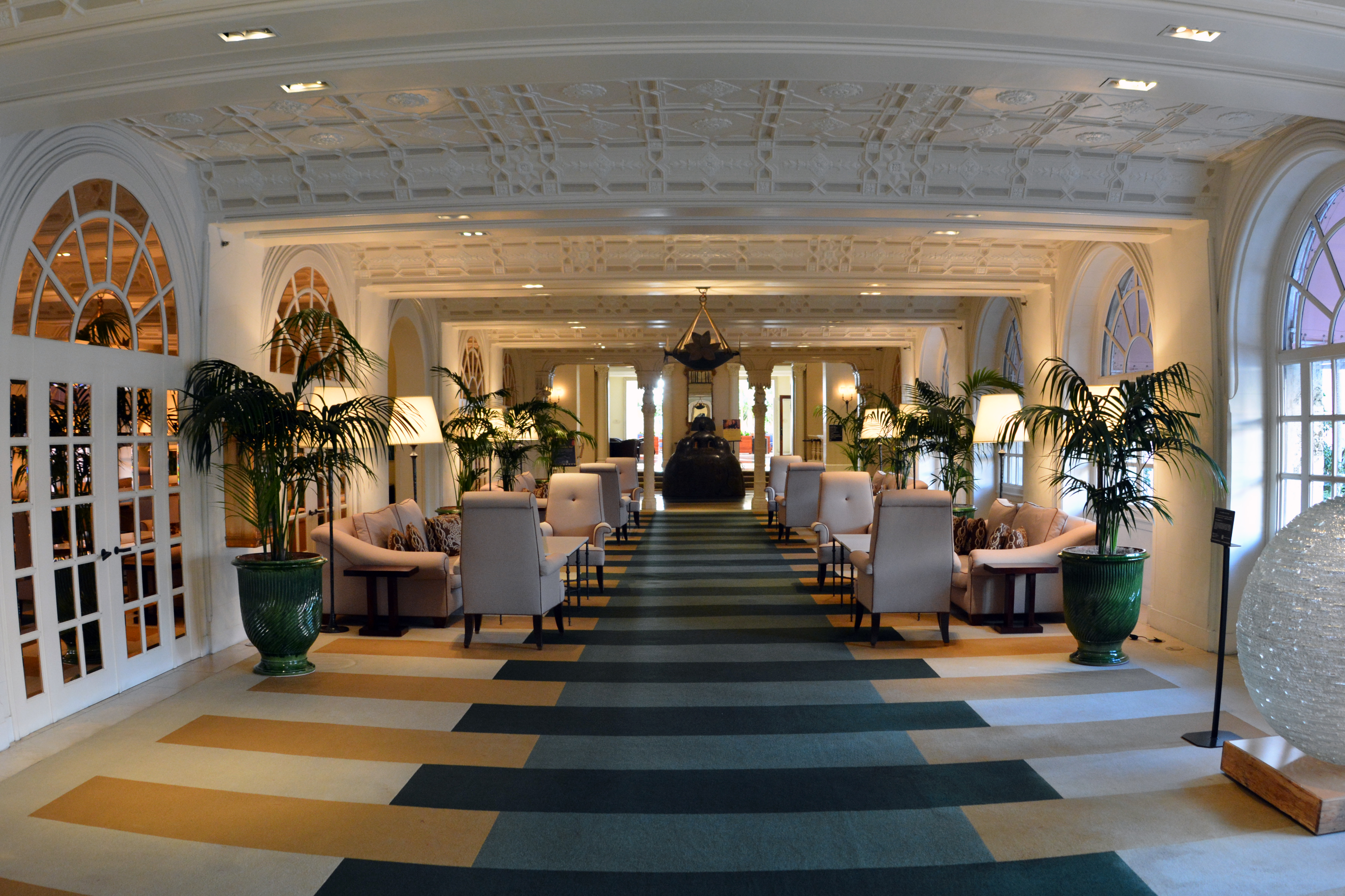 Boca resort interiors photo D Ramey Logan